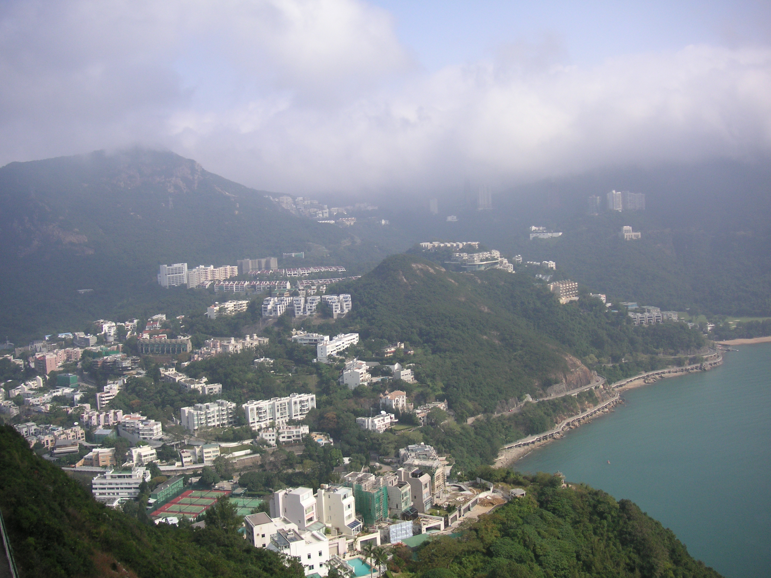 Shouson Hill, on the south side of Hong Kong Island in Hong Kong. It is the small hill in the middle.